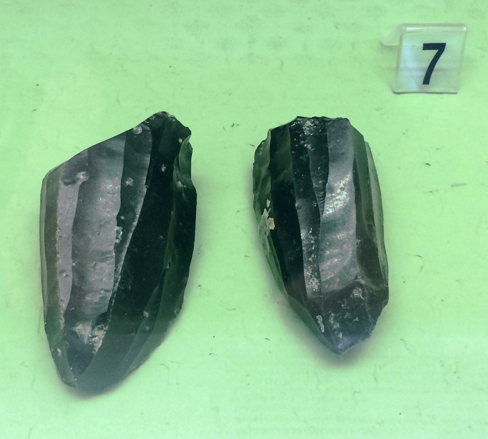 Stone flake objects of obsidian from Tokaj, of the "Transdanubian" linear pottery culture period in Hungary, between 5400 BC and 4000 BC. Find from near Budapest. Microliths may have been flaked from these cores.